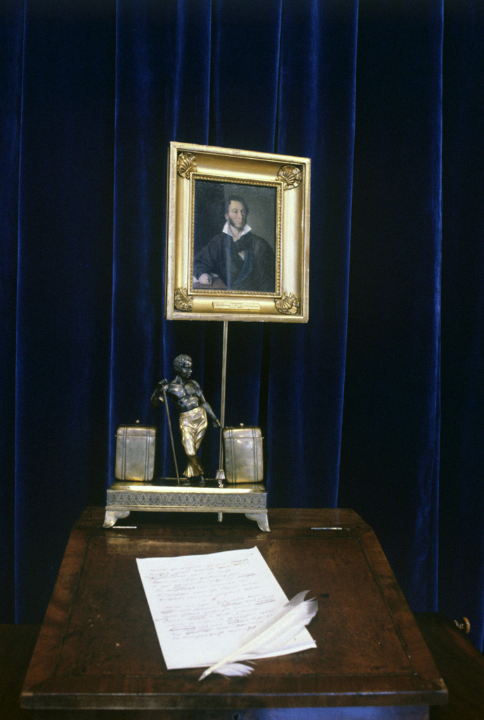 “Bureau at which poet Alexander Pushkin worked, on wall - poet's portrait”. Bureau at which poet Alexander Pushkin worked, on the wall - poet's portrait. Memorial Flat of Alexander Pushkin at Arbat museum.